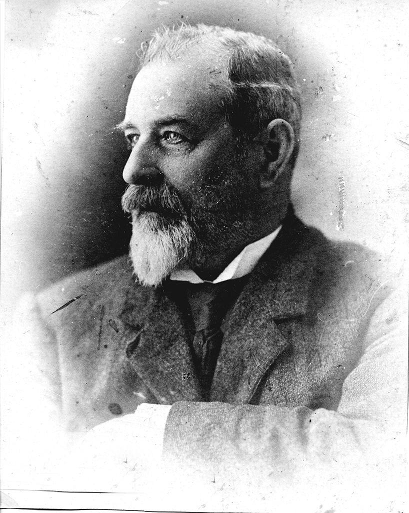 A portrait of Michael Rush, champion Irish Australian sculler.